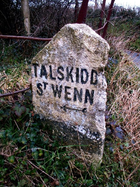 St. Columb Guidestone 2. Guidestone on the road between St. Columb and St. Mawgan, at the junction for Talskiddy.